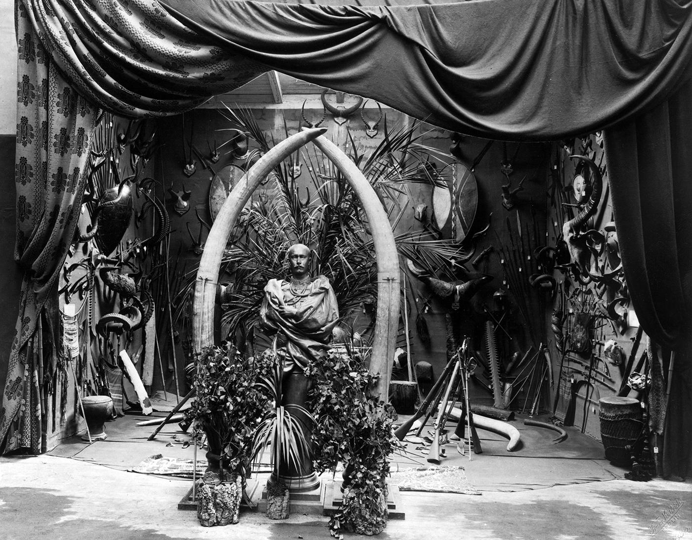 Bust of Johann Albrecht of Mecklenburg in the midst of objects form the German colonies at the Gewerbeausstelllung Berlin 1896